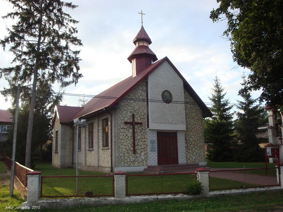 St. Francis of Assisi Polish Catholic Church in Okol-Petkowice